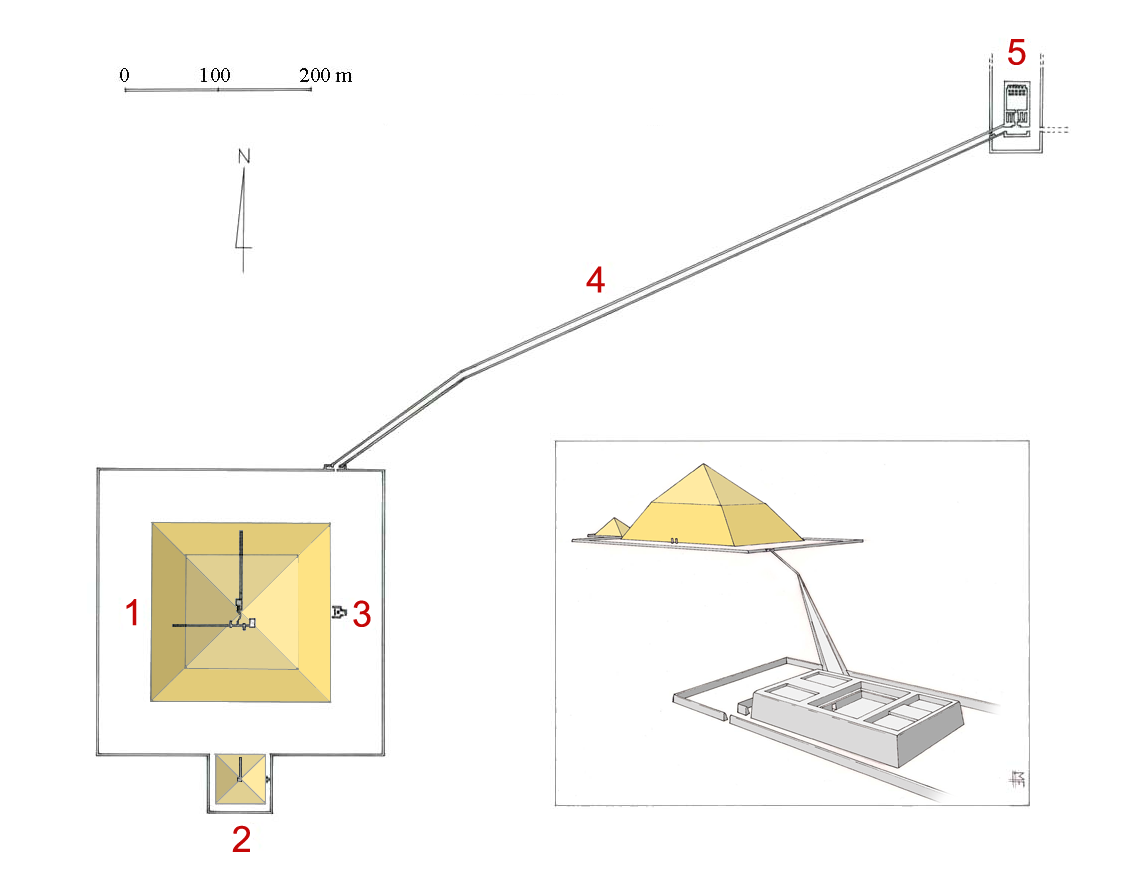 Complex of Snofru's Bent pyramid at Dahshur